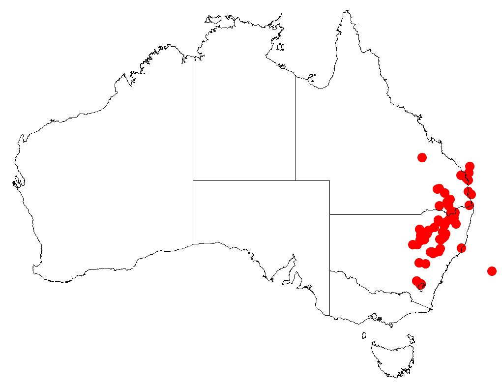 Muellerina bidwillii occurrence data from AVH downloaded 23 September 2018